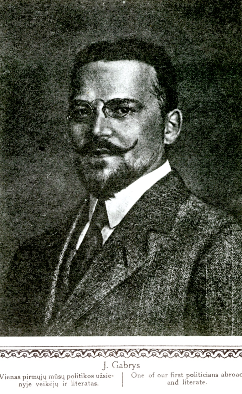 Juozas Gabrys-Paršaitis, Lithuanian lawyer, journalist, historian of literature